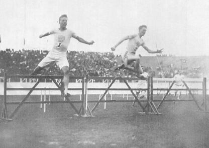 Charles Bacon and Harry Hillman in the 400 metre hurdles final at the 1908 Summer Olympics